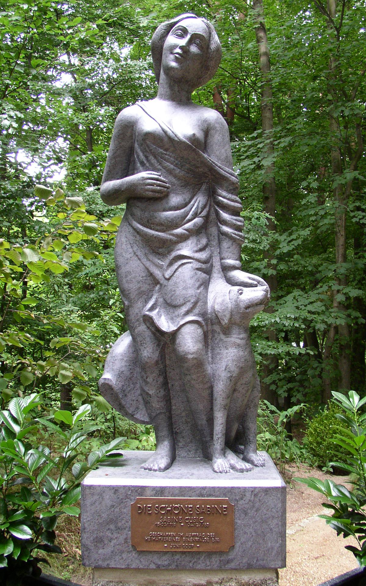 „Sabine“ (1715–83) in Neuruppin-Binenwalde in Brandenburg, Germany